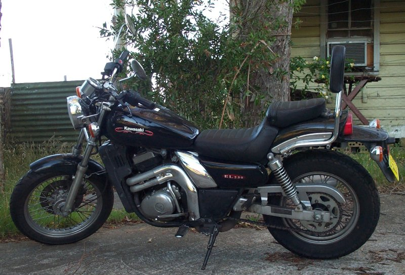 Lesson to self. DON'T attach rego sticker holder to bottom of number plate. The wind ripped it off, along with a third of the number plate.